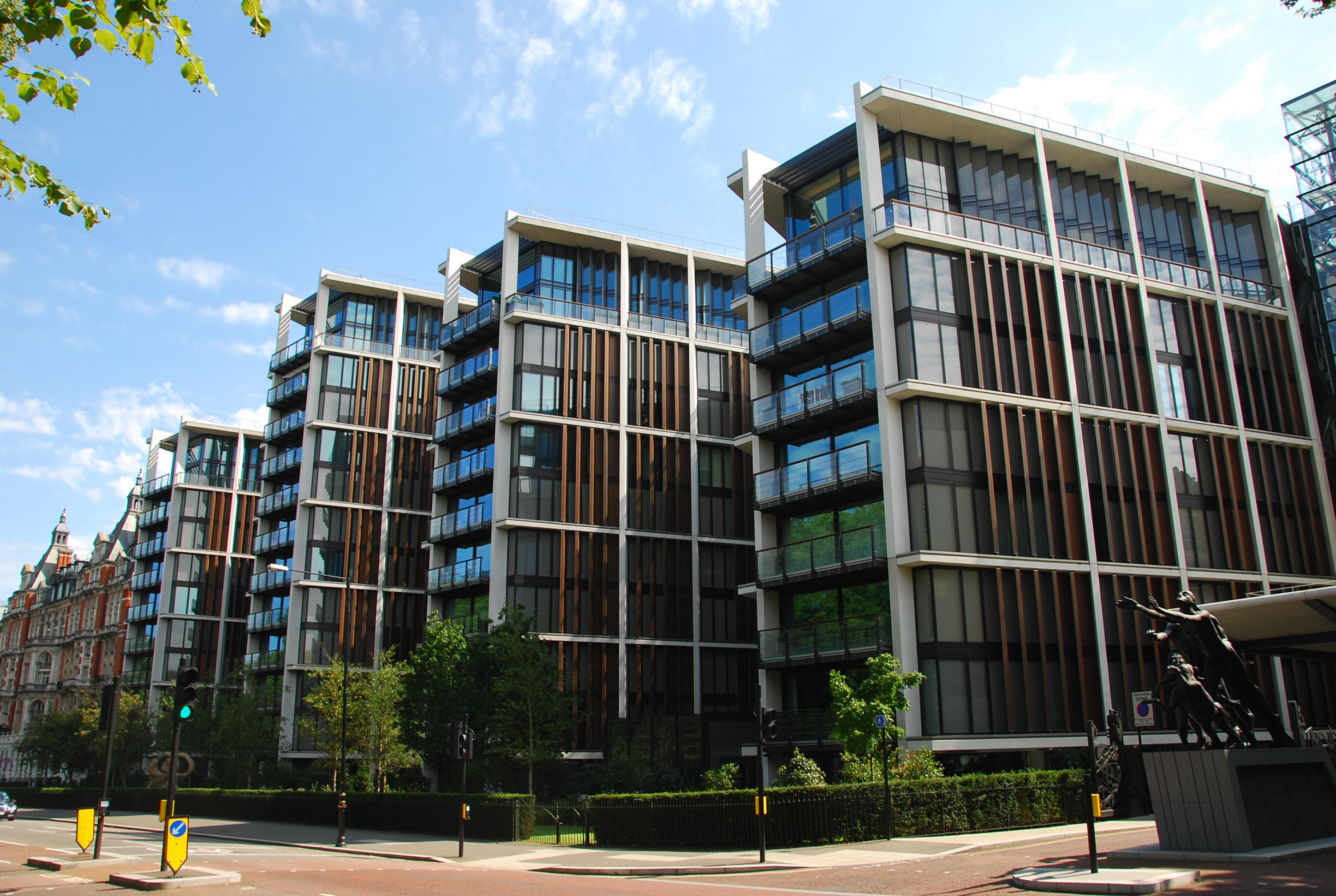 No 1 Hyde Park, London. Architect: Rogers Stirk Harbour, some of the most expensive apartments in London.